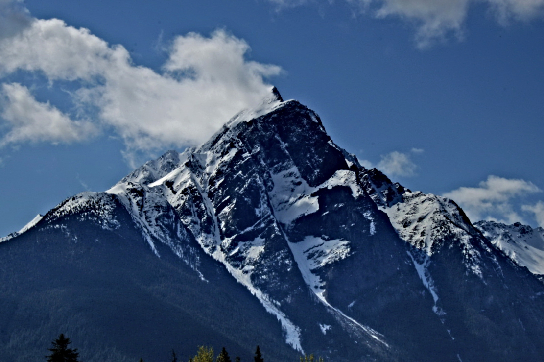 Hagwilget Peak near Hazelton, BC Canada